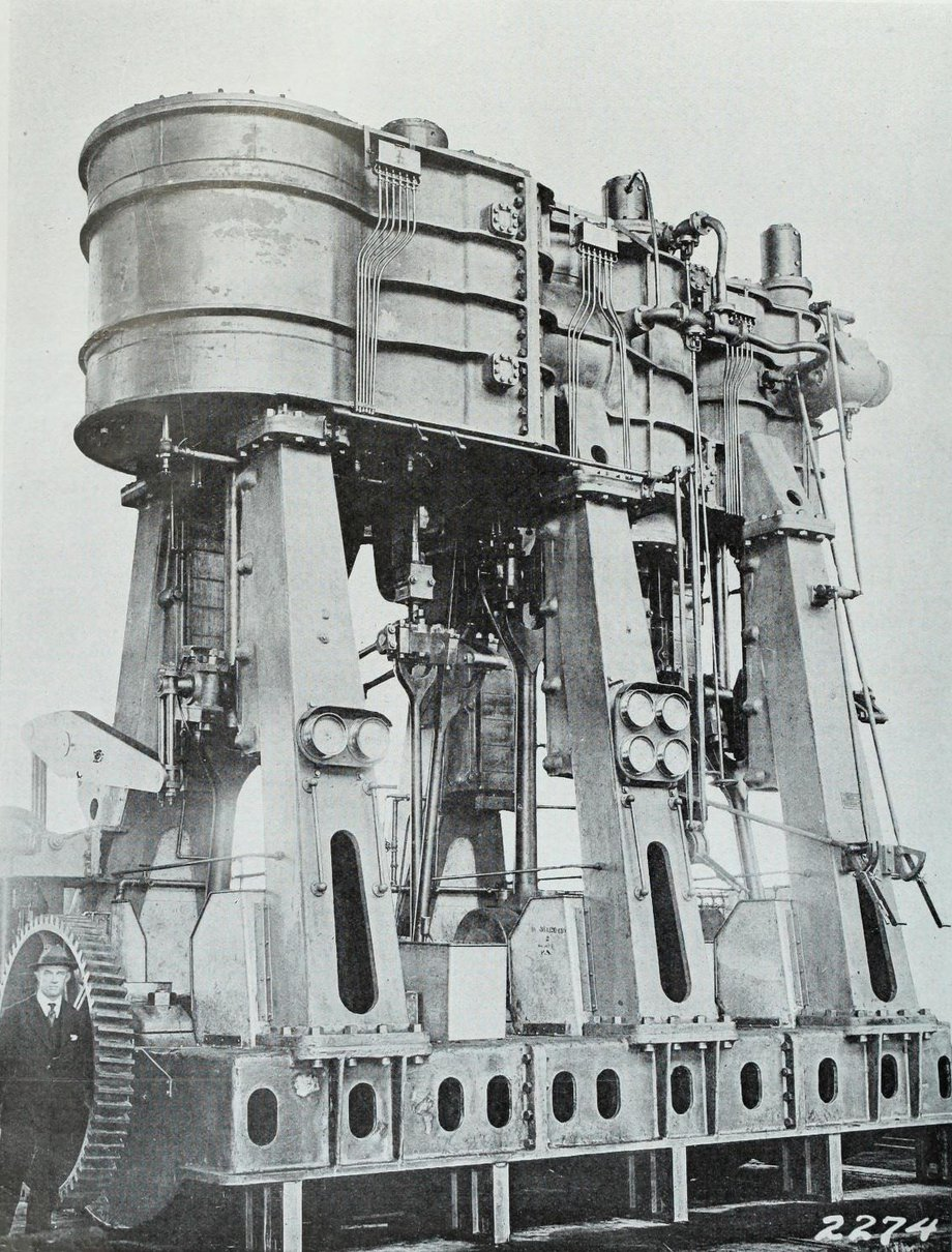 A 2800 horsepower triple expansion marine steam engine built by the Joshua Hendy Iron Works in 1919 for the Schaw-Batcher Company (aka Western Pipe and Steel) of California.